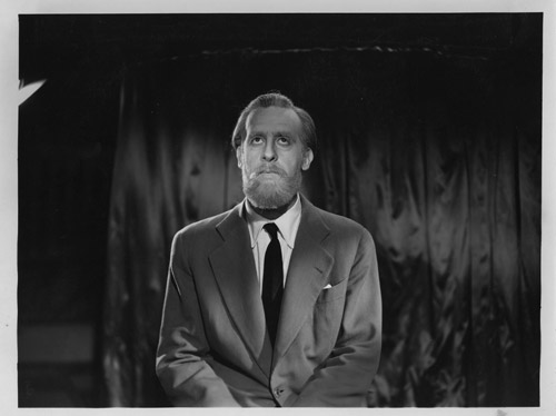 Argentine actor Adolfo Linvel in La gata (1947, Mario Soficci) on Website "Acceder" (access) Catalog, Cultural Contents Network of Cultural Heritage, Ministry of Culture, Government of the City of Buenos Aires.